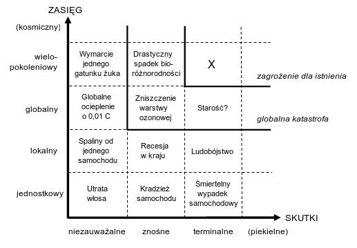 A qualitative categorization of different risks in terms of scope and severity